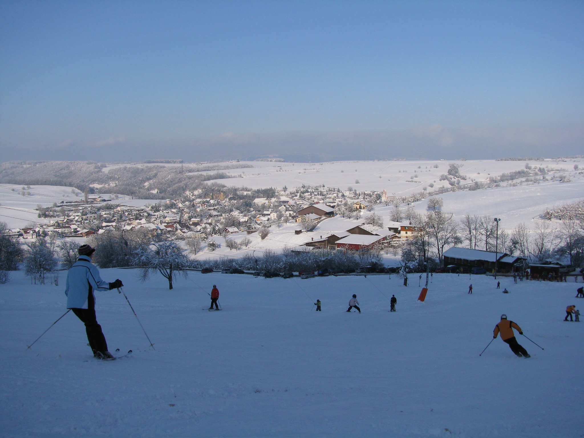 Winter sport area Föhrlimatt in Wegenstetten, Aargau, Switzerland